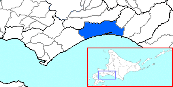 The location of Tomakomai in Iburi Subprefecture, Hokkaido Prefecture, Japan.